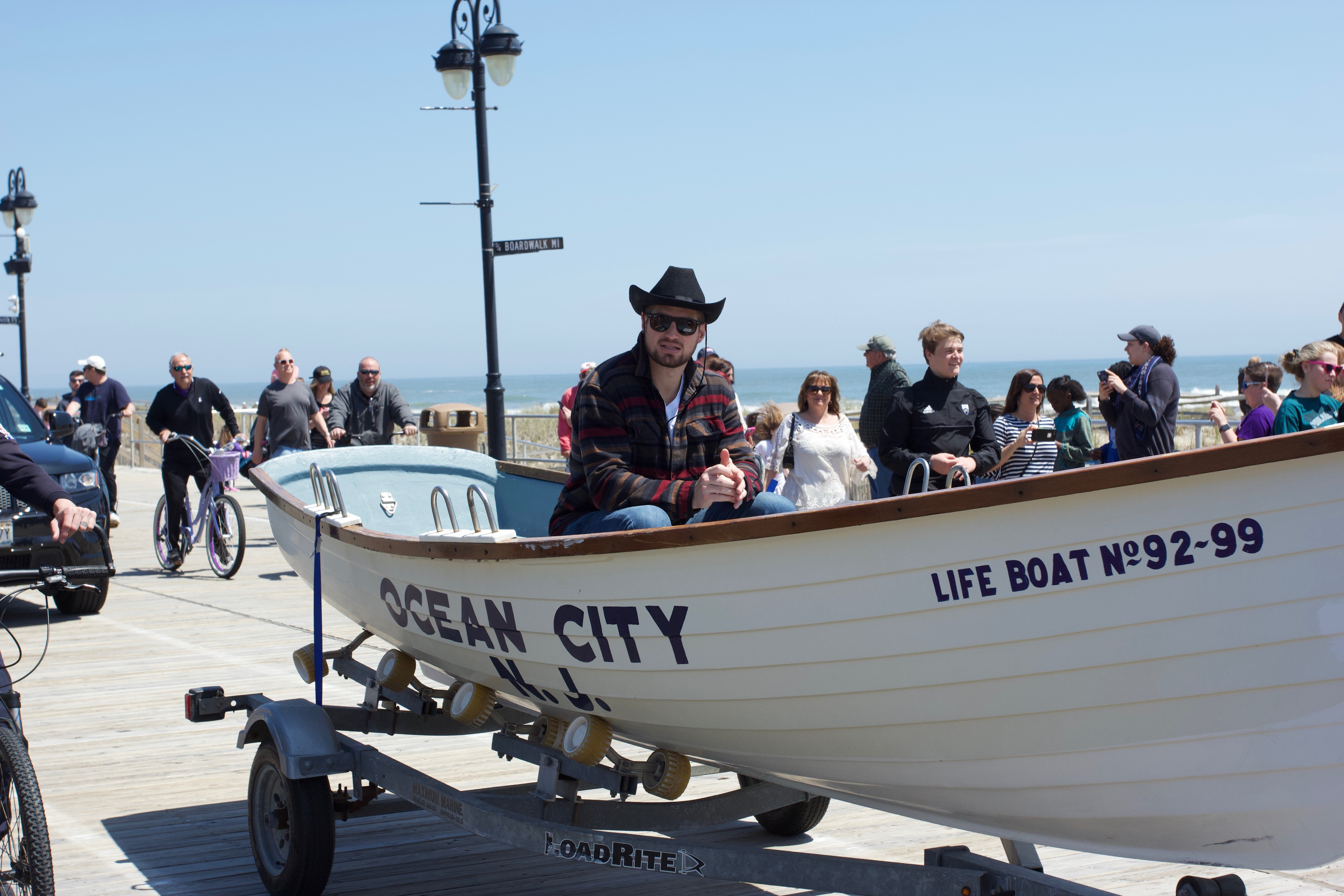 Eagles Ocean City Parade